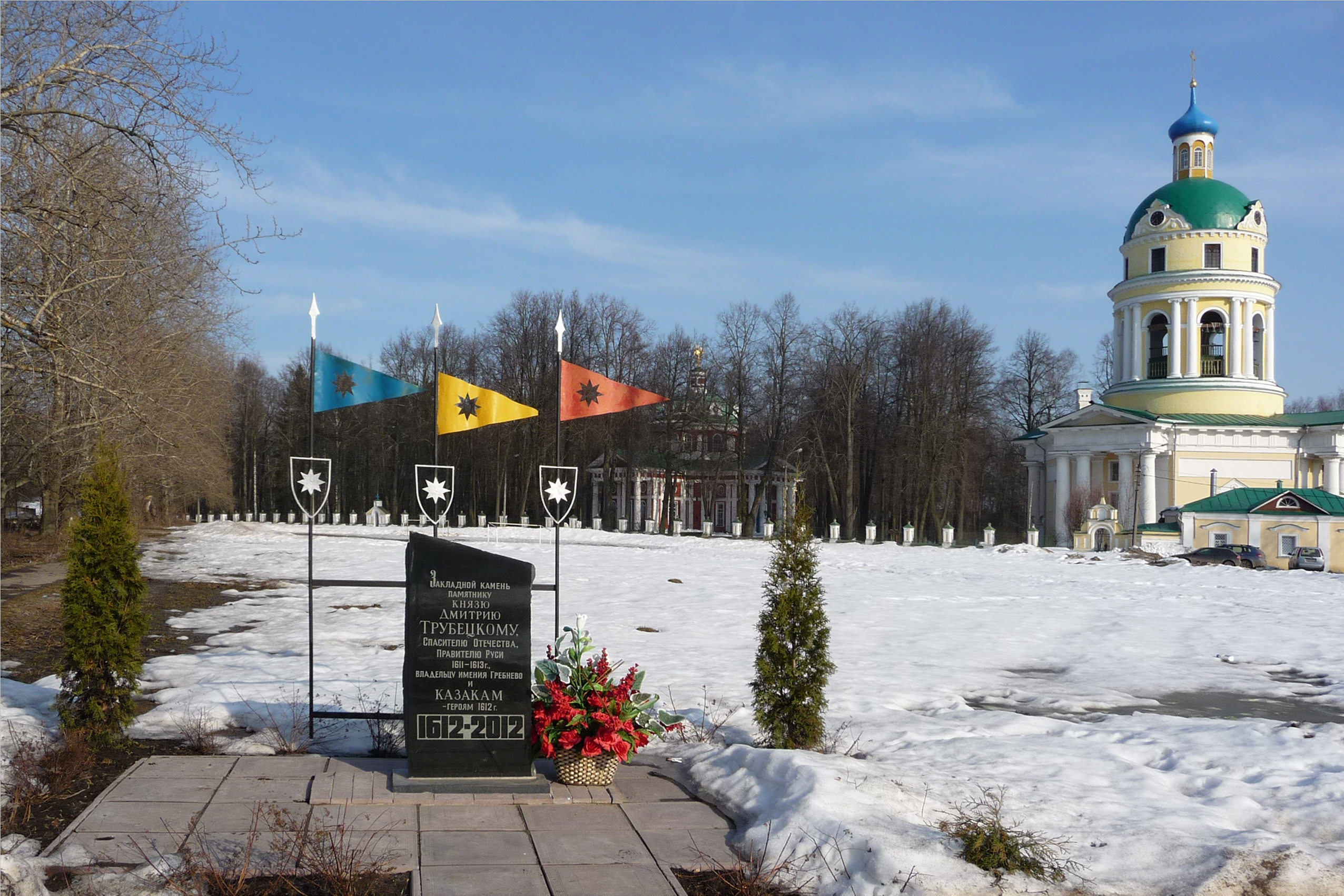 The memorial plaque in the village Grebnevo: Prince Dmirtiyu Trubetskoi, "savior of the fatherland" and the Cossacks (1612-2012)